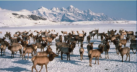 Wapiti (elk) during the winter at the National Elk Refuge, Wyoming, U.S.